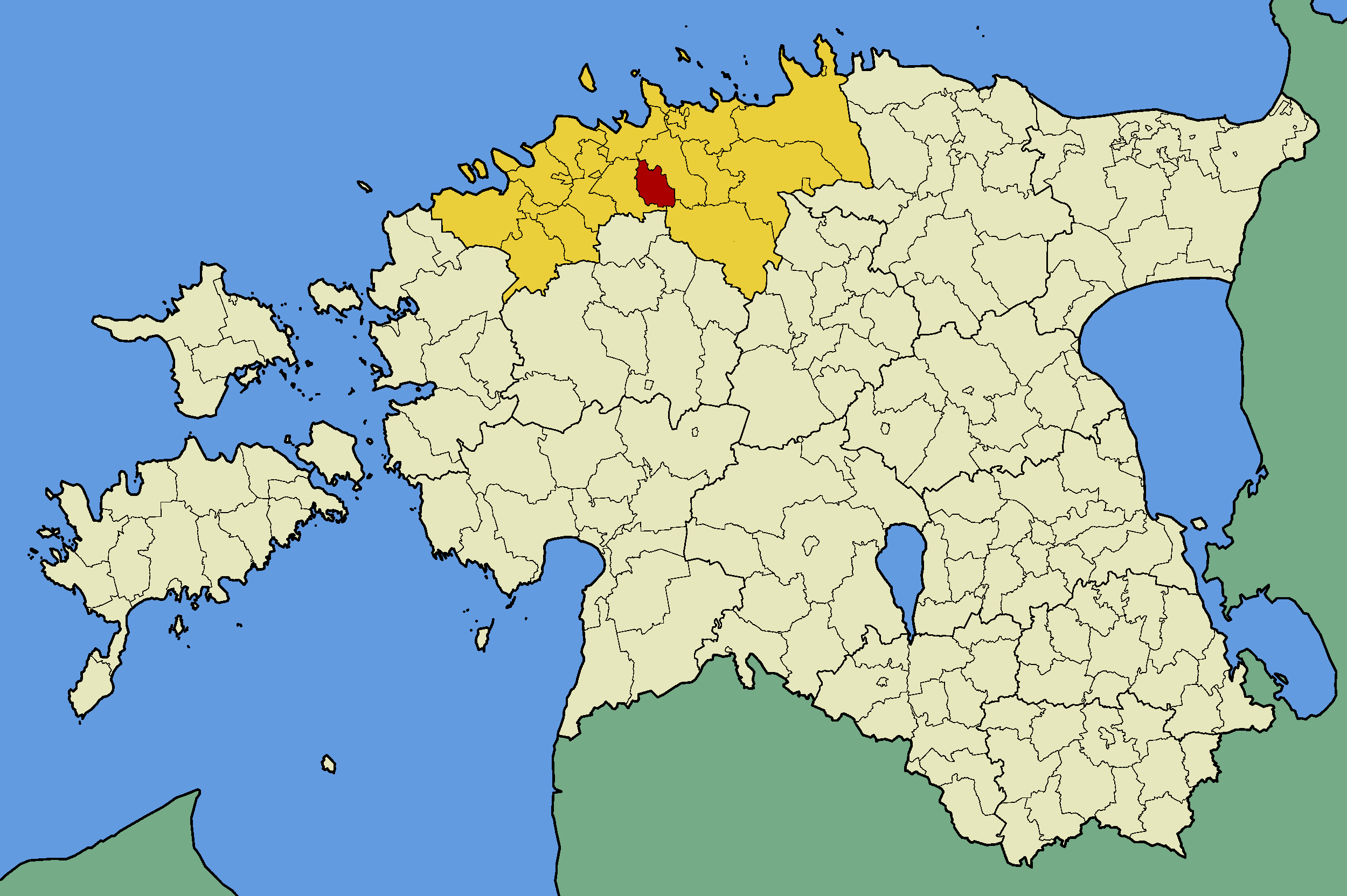 Map of Estonia with borders of municipalities (parishes). Harju county and Kiili municipality (parish) emphasized.